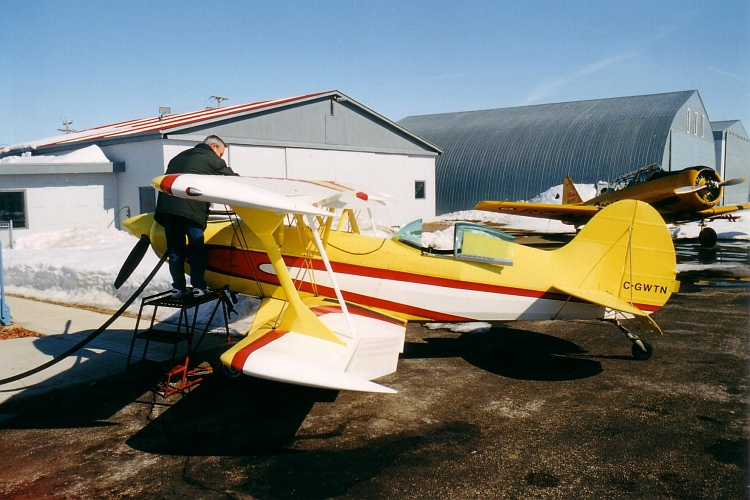 I took this photo of an Acro Sport II at Red Deer, Alberta in 1998.